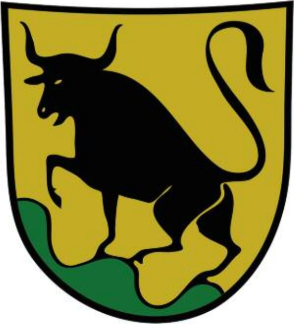 Coat of arms Jochberg.